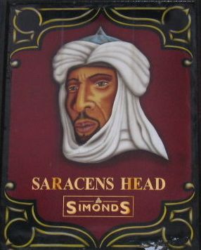 Edited version of Image:Saracens Head pub sign.jpg.